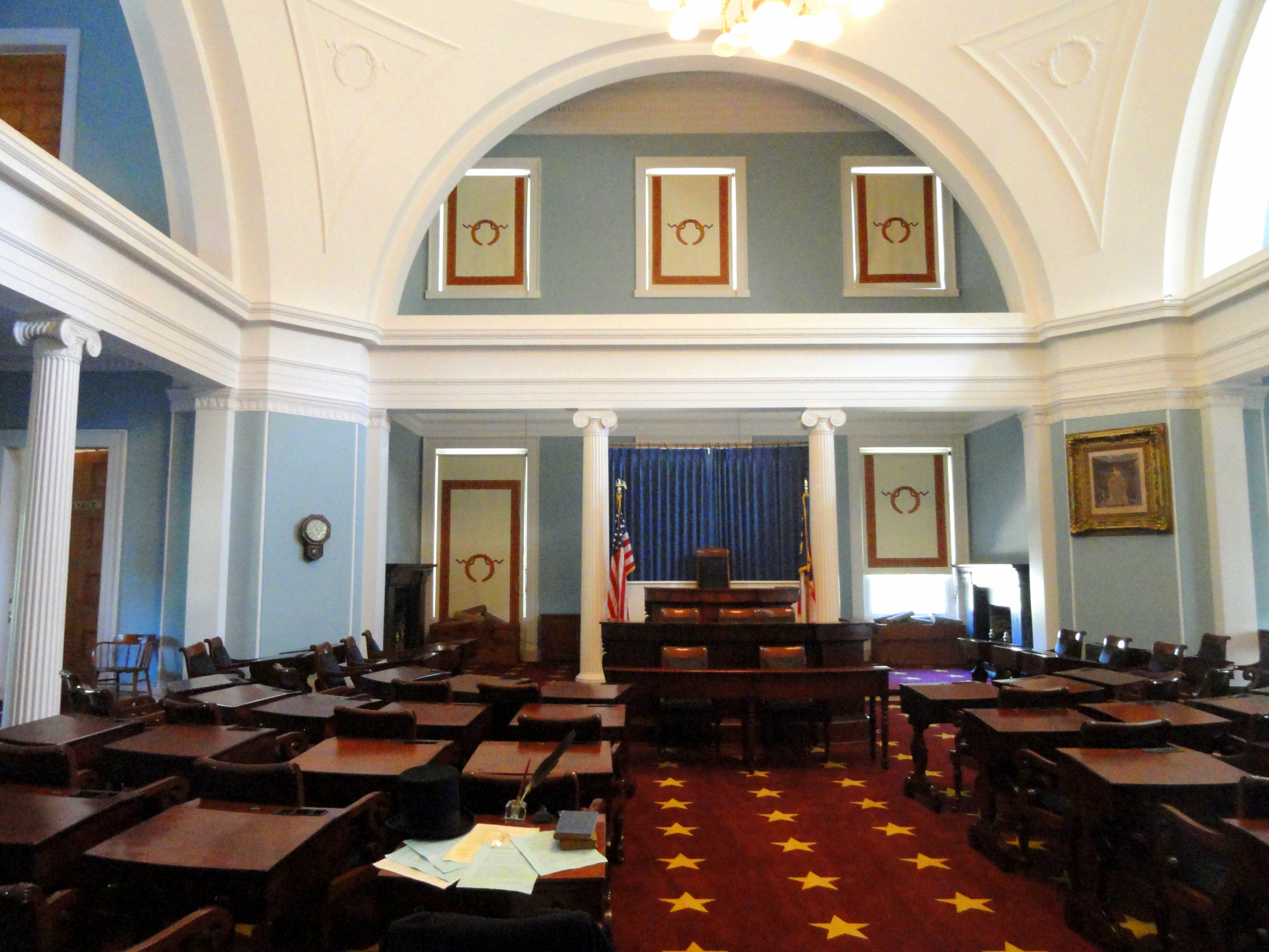 North Carolina State Capitol, Raleigh, North Carolina, North Carolina, USA.